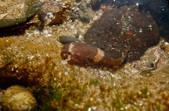 California Clingfish (Gobiesox rhessodon) - These fish are approximately 2 inches in length. They have a flattened body that varies in color. It has three lighter colored bands on it's body. The pelvic fins form suction disc to attach to rocks and algae.